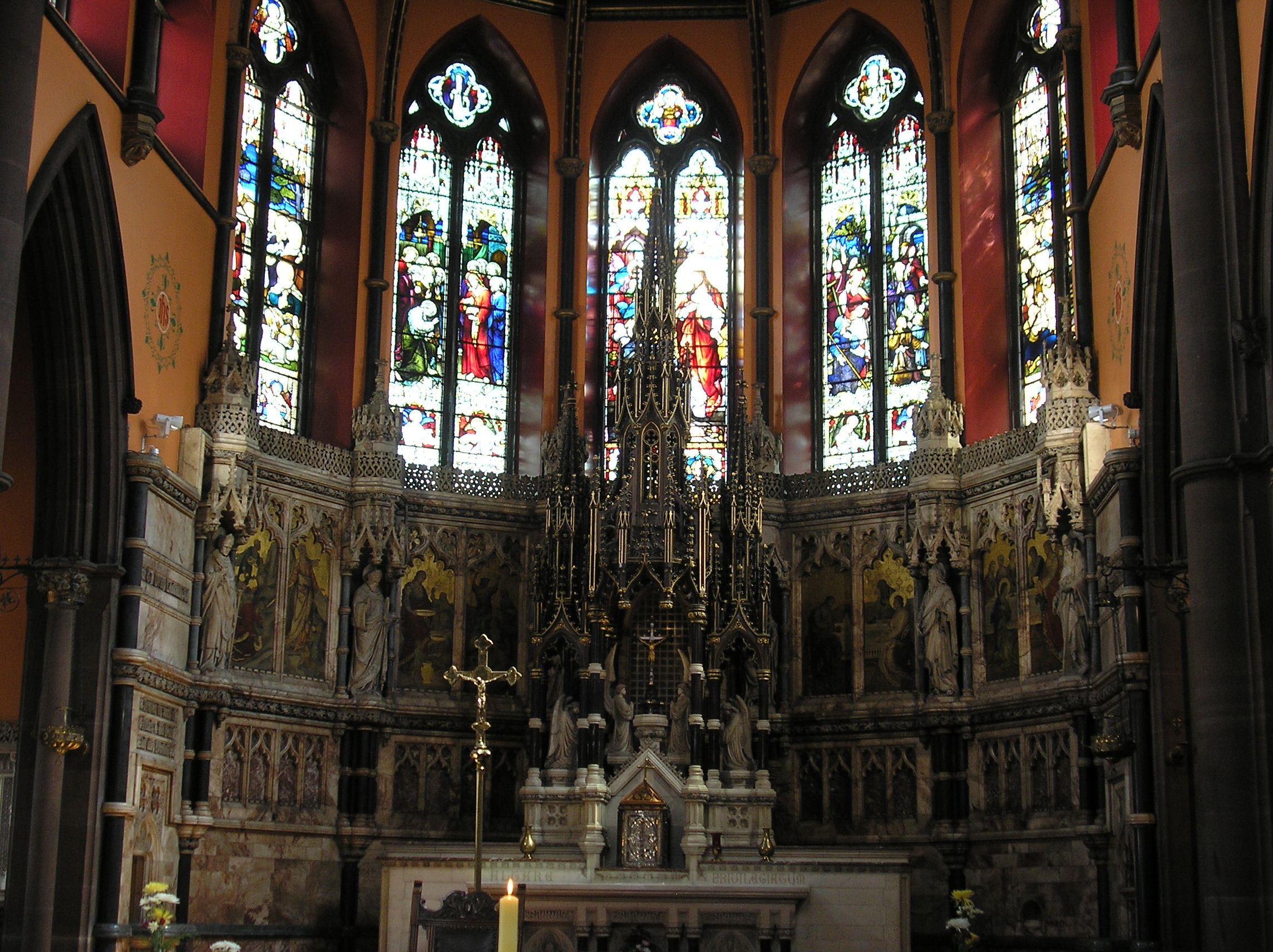 Sacred Heart Roman Catholic Church, Liverpool: high altar and reredos designed by AWN Pugin